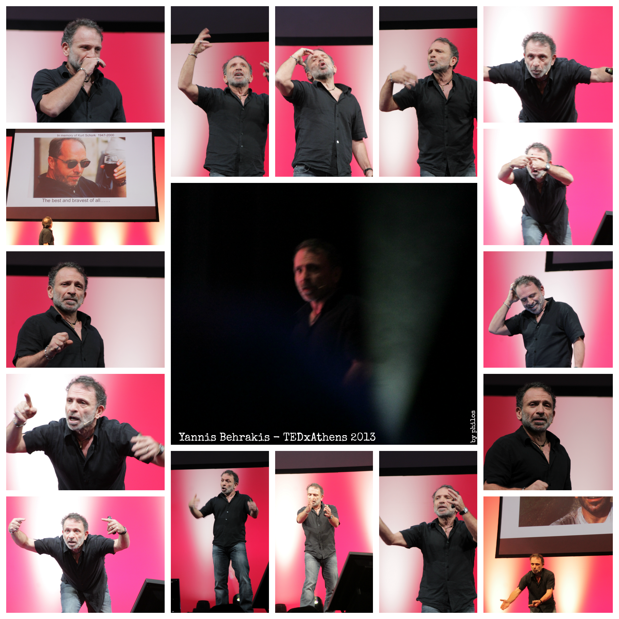 @TEDxAthens 2013 More photos goo.gl/JEmqiQ